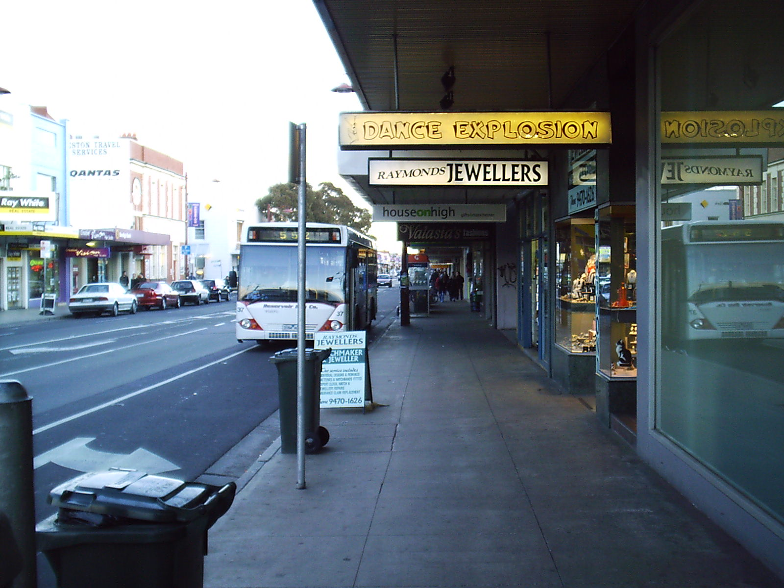 High Street, Preston, Victoria, Australia Original photograph taken by Paul Fenwick, 10th August 2004.